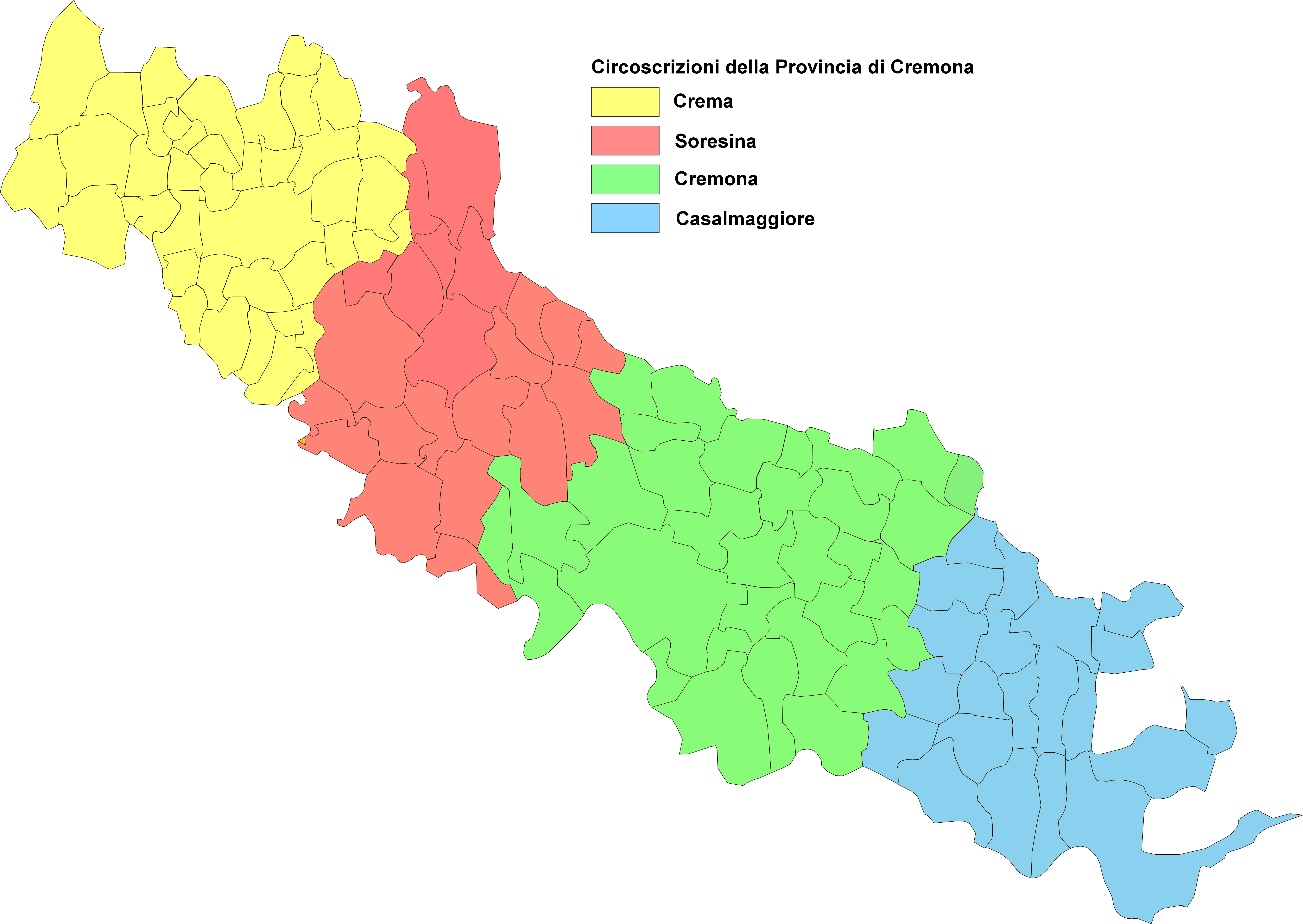 Circoscrizioni Province of Cremona